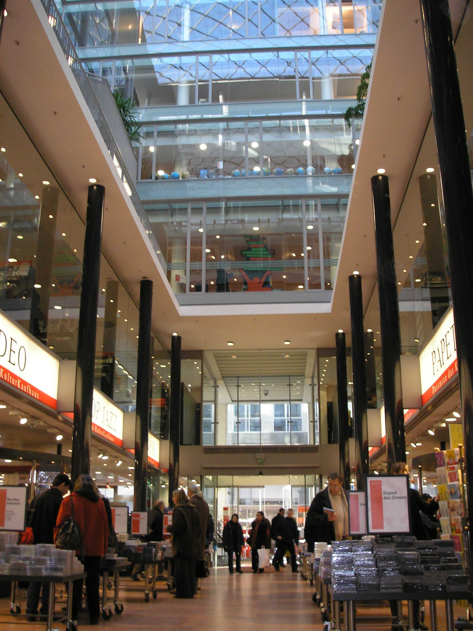 Description: Interior view of main hall at Dussmann Kulturkaufhaus Source: self-made, I release it into the public domain.